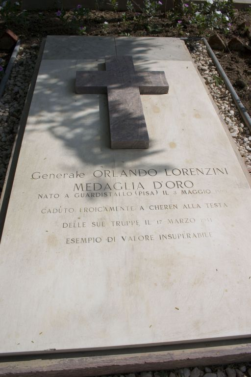 Battle of Keren Battlefield - Grave